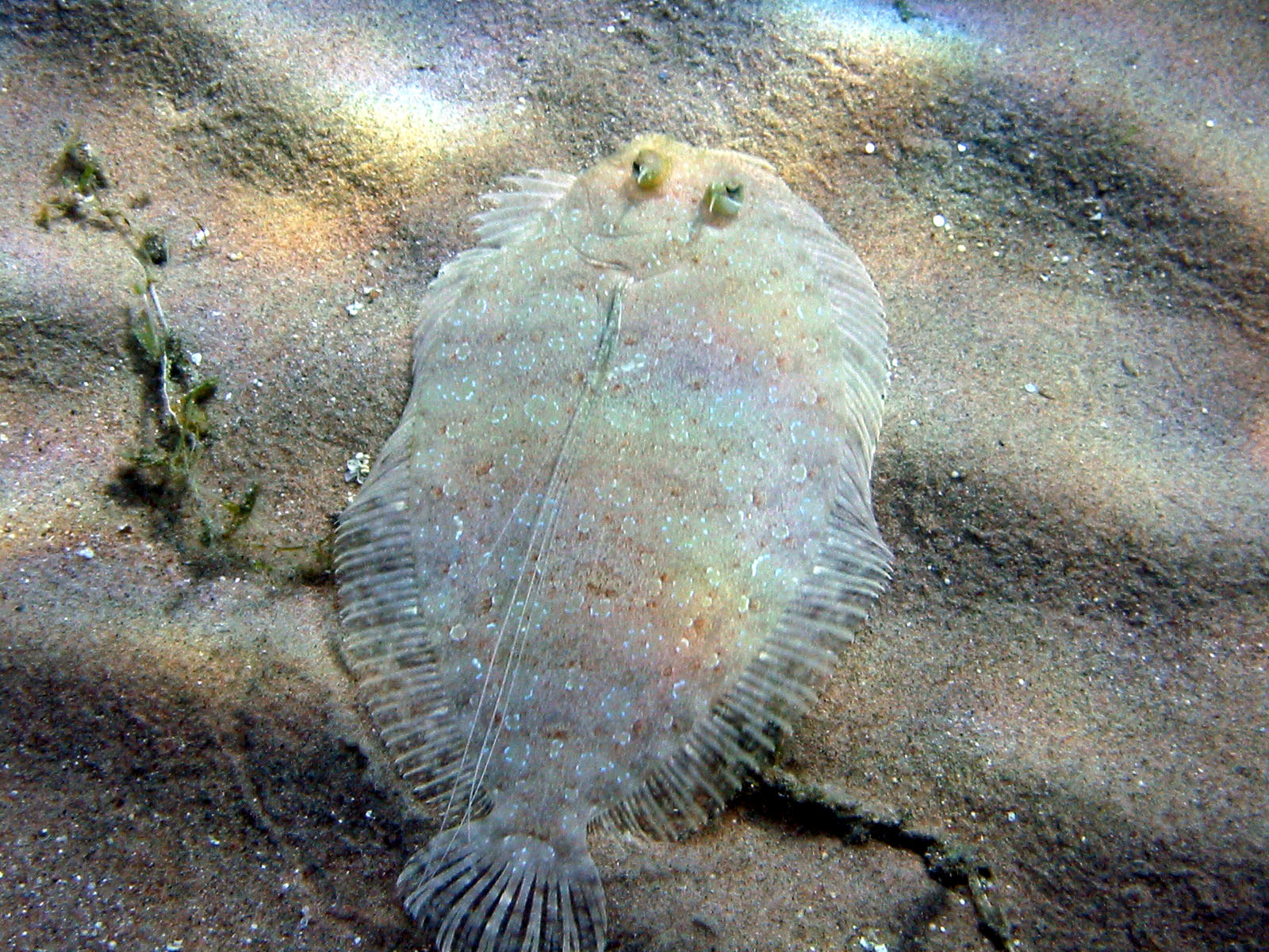 Author Photo2222 21:09, 23 May 2007 (UTC) Taba Egypt 2007